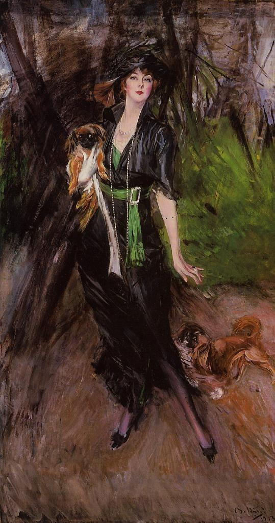 Lina Bilitis, with Two Pekinese